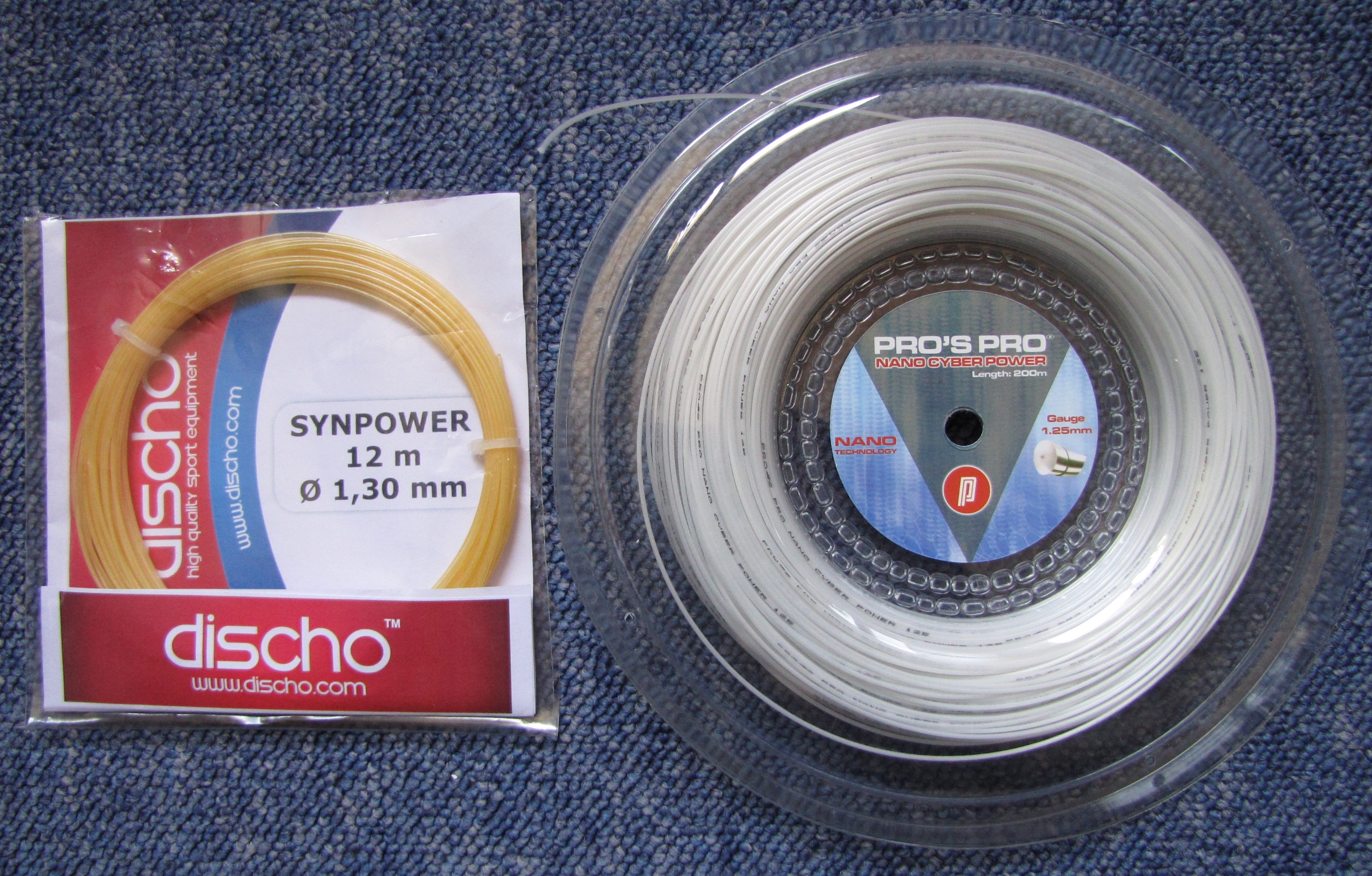 Strings to string a tennis racket. On the left side a 12 m set, on the right a roll with 200 m of string.